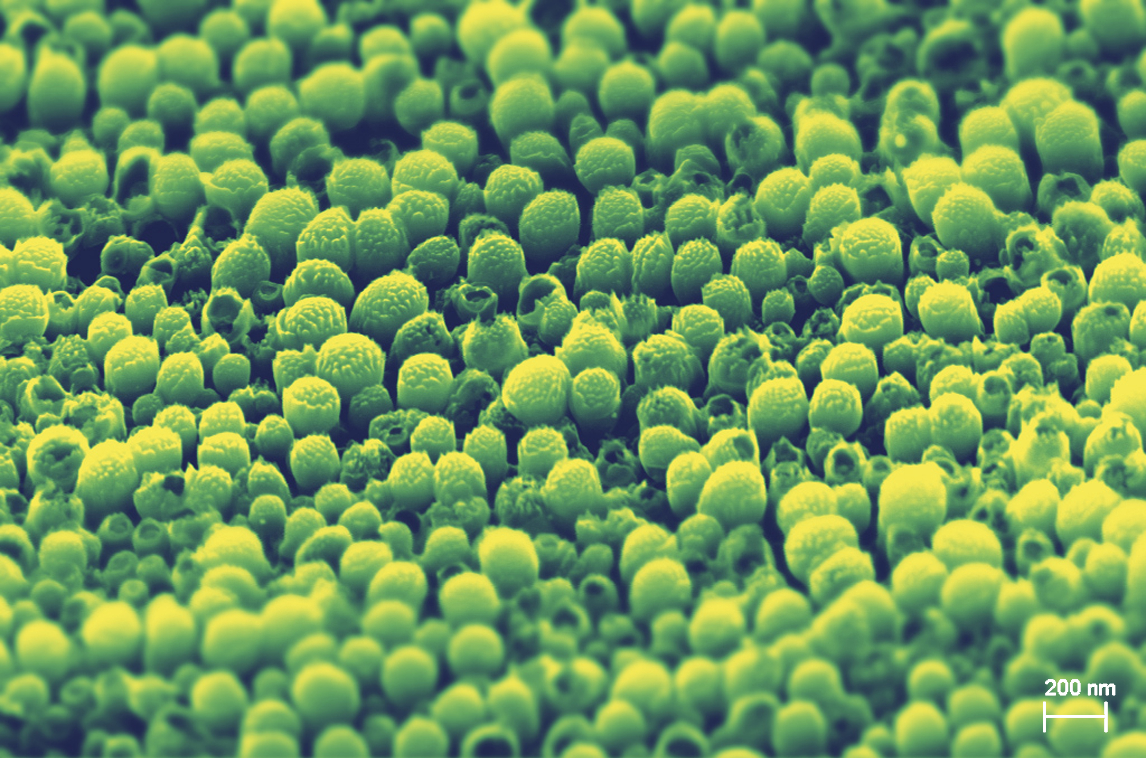 The processed image of surface of zirconium dioxide produced by electro oxidation of zirconium foil.